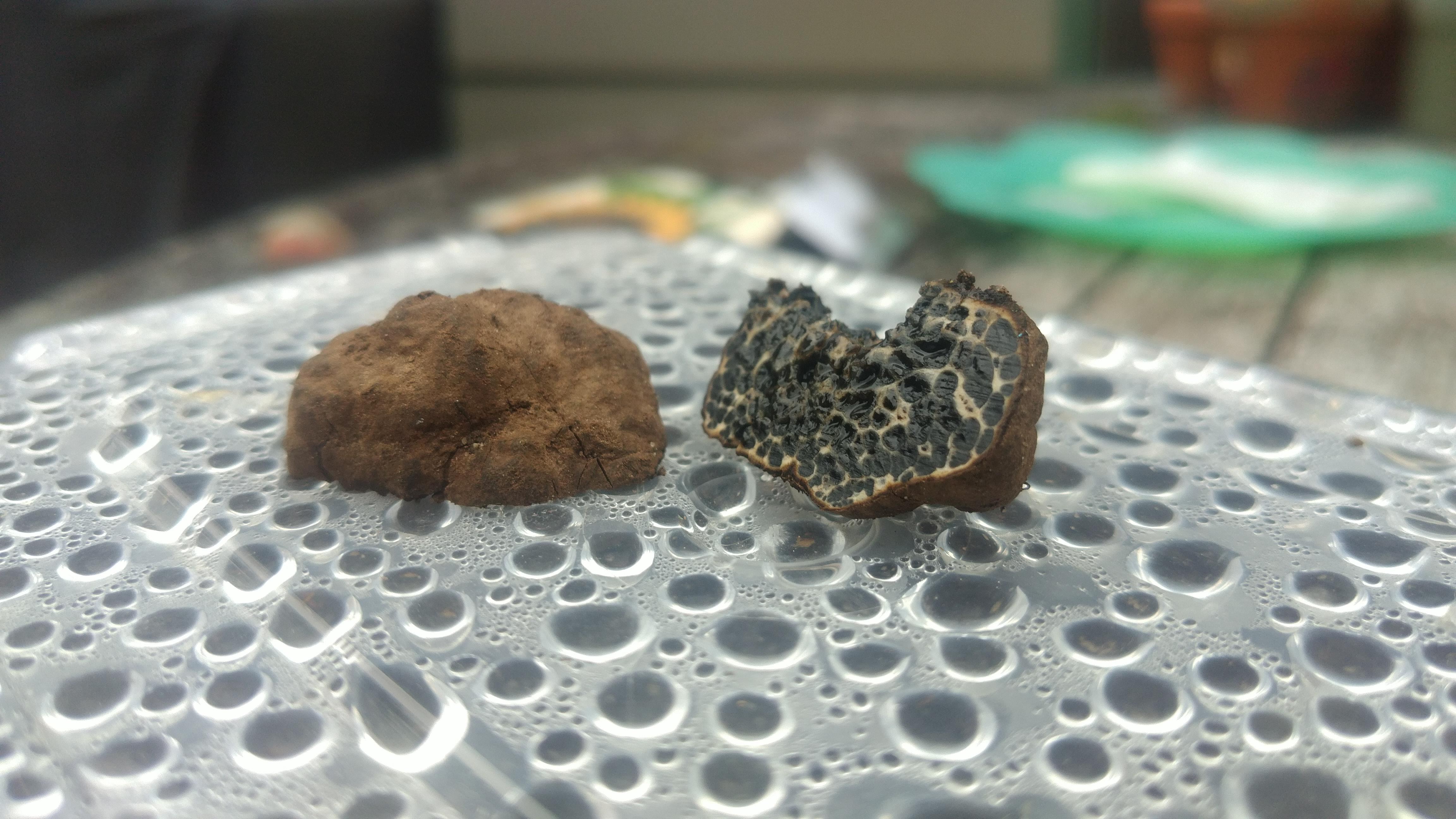 A Melanogaster truffle found in Western Washington. This image shows the fruiting body cut in cross section. On the left is the washed exterior and on the right is the interior.